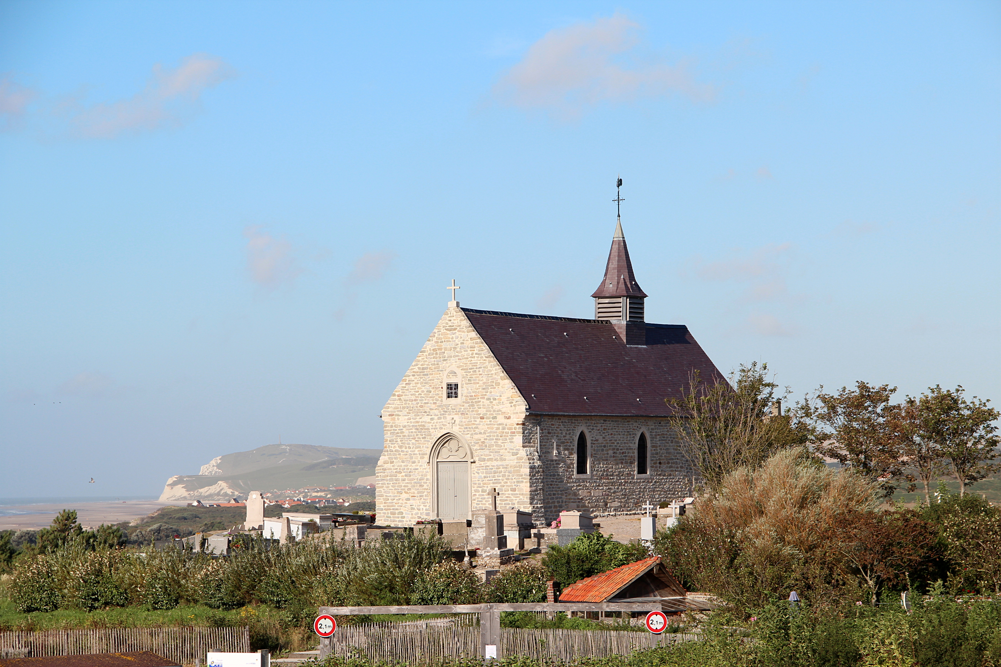 Tardinghen (Pas-de-Calais), France. – The church of Saint Martin (XVIth century) and the cliffs of the Cap Blanc-Nez (Cape White Nose).